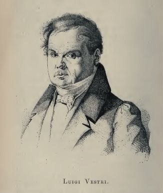 Luigi Vestri Italian actor